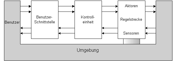 reference architectur of an embedded system